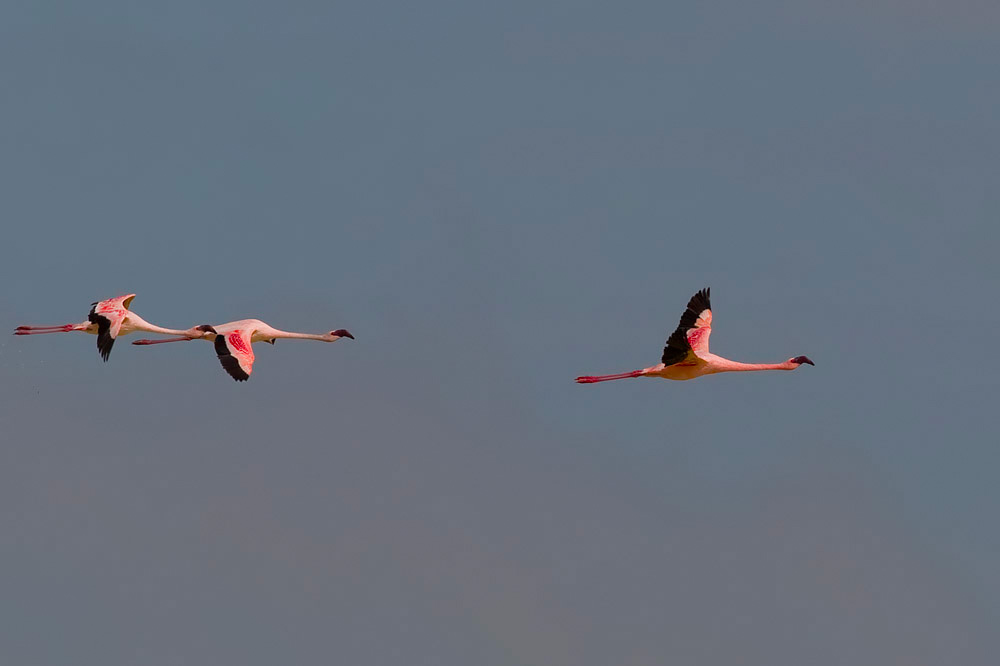 Lesser Flamingos over Etosha Pan